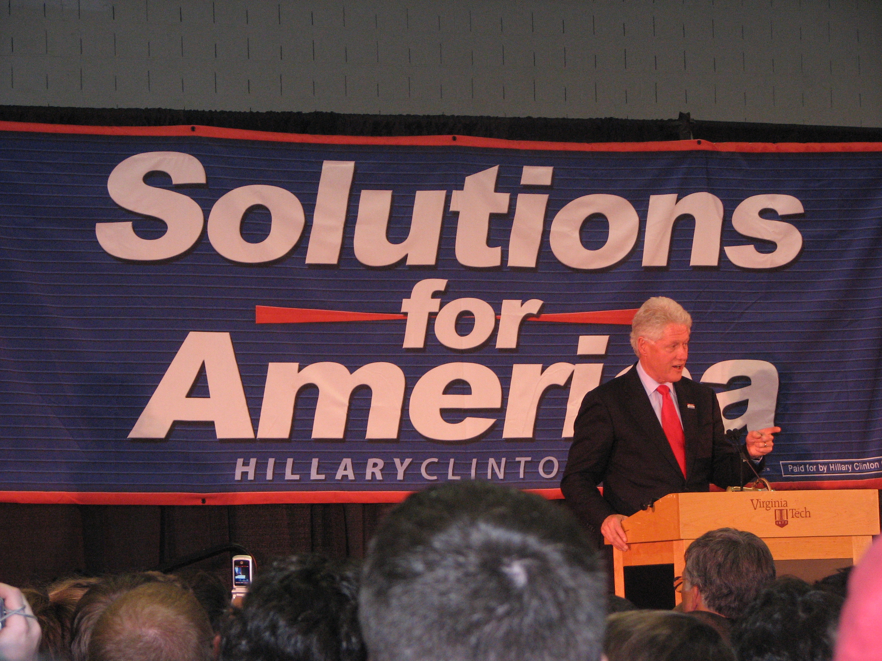 Bill Clinton campaigning at Virginia Tech for Hillary Rodham Clinton during the 2008 democratic primaries